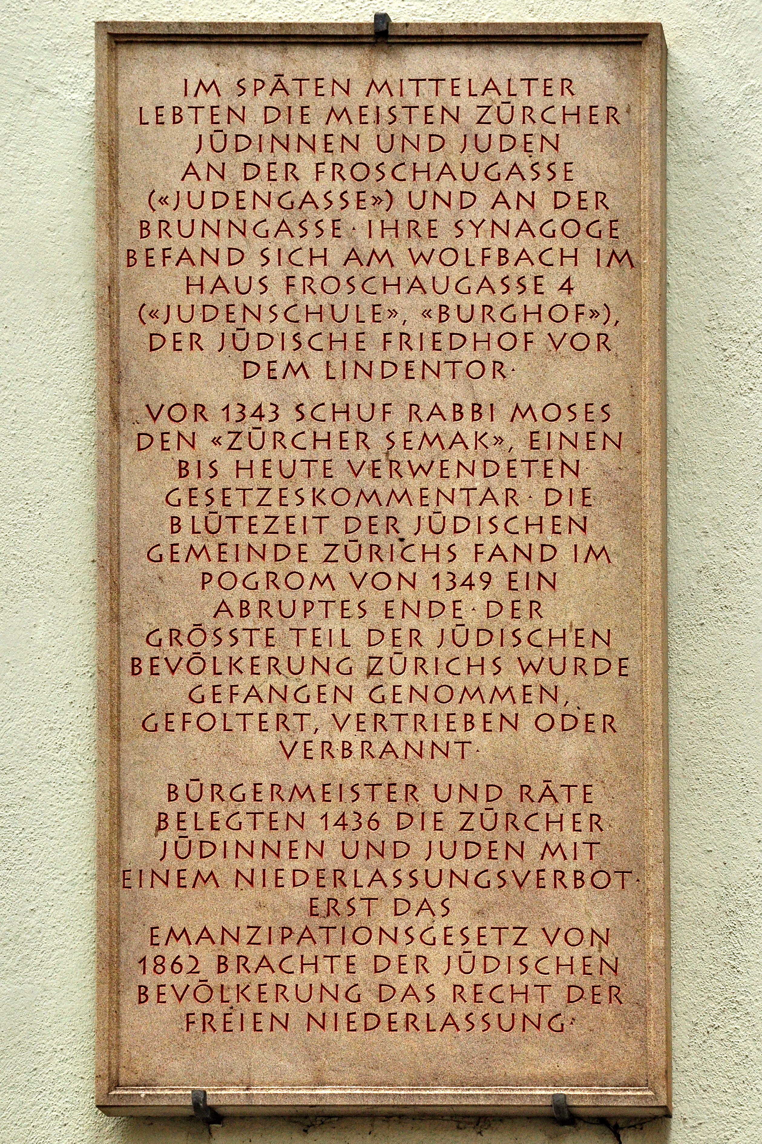 Synagogengasse, Neumarkt in Zürich (Switzerland), preceding site of the present Synagoge Zürich Löwenstrasse.